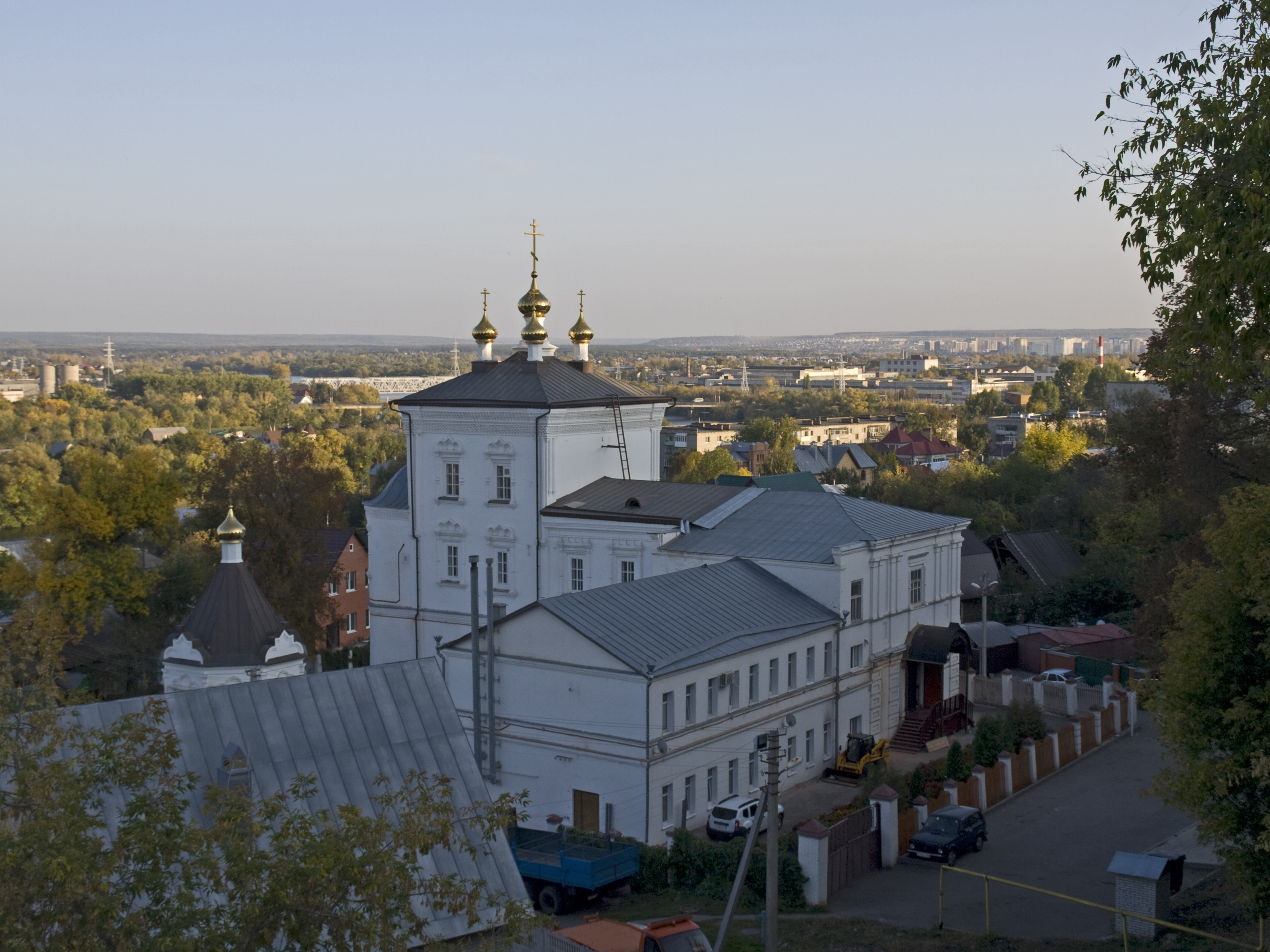 Transfiguration Church from the viewpoint, Penza